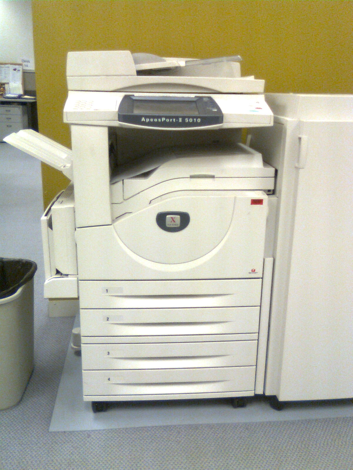 Fuji Xerox ApeosPort-Ⅱ 5010 photocopier